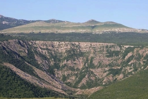 Myself, May 2006, sunset